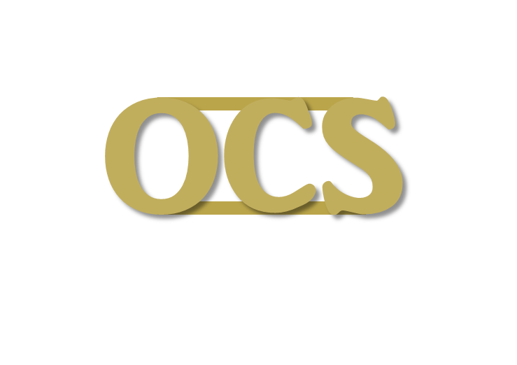 letters "OCS" in brass colour, joined by bras bars